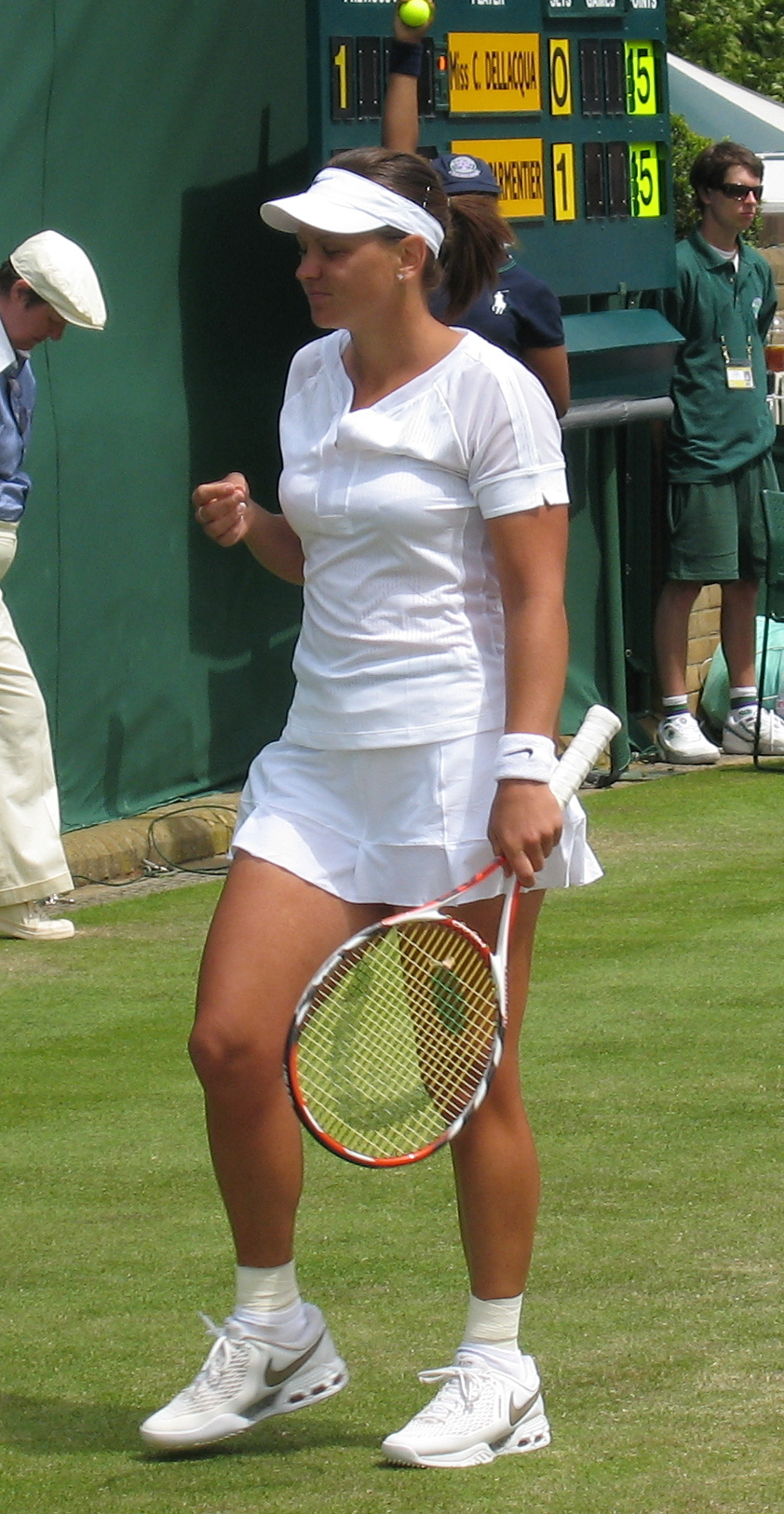 Casey Dellacqua at 2008 Wimbledon